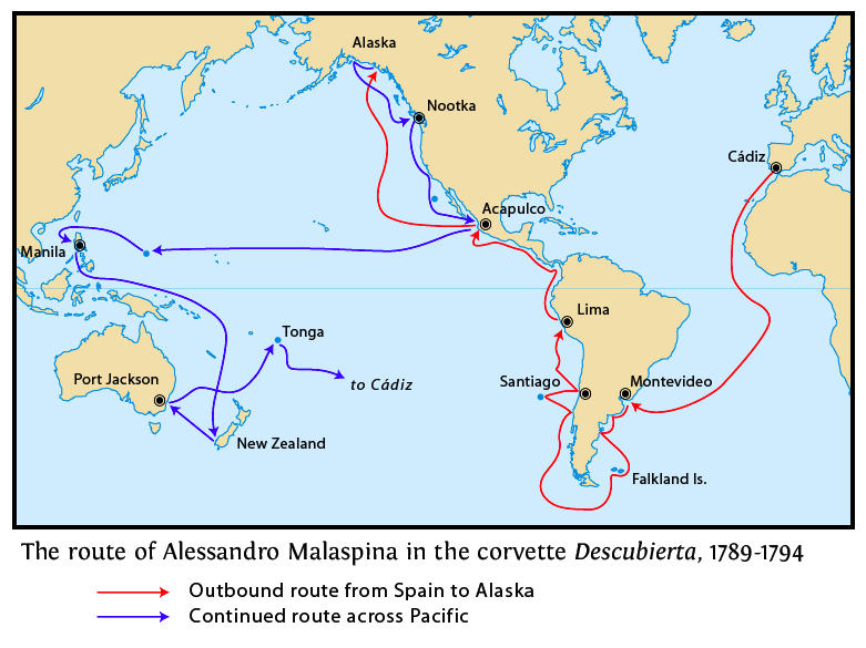 This is a map of the route taken by Alessandro Malaspina during his expedition of 1789-1794. The map shows only the route of Malaspina's ship, Descubierta. A second ship, Atrevida, under command of José Bustamante accompanied Malaspina along most but not all of this route. The return route from Tonga to Spain is not shown. I, Pfly, made this map, using various sources that describe the expedition and its route.